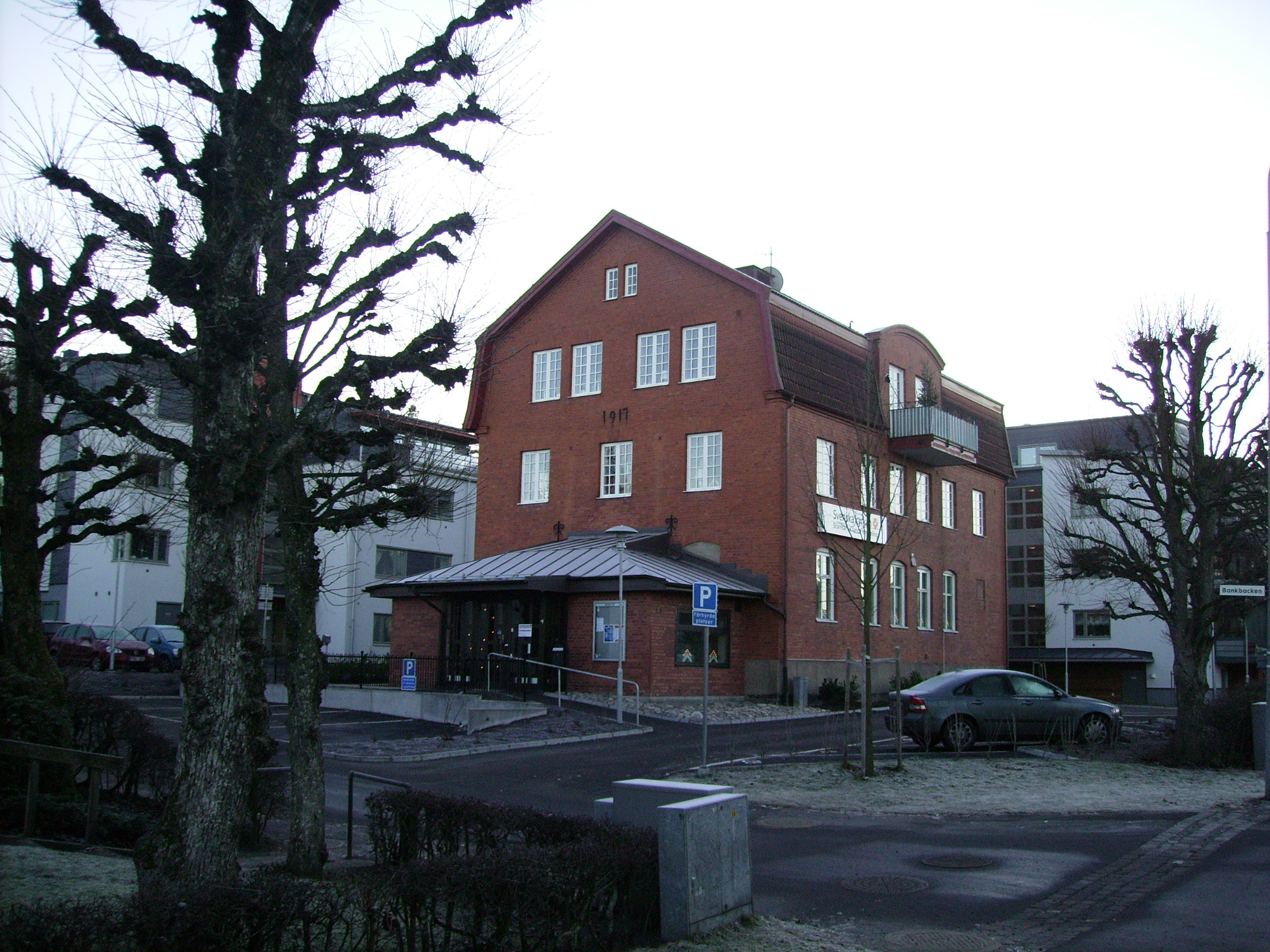 Picture of a building in Älvängen, former bank.